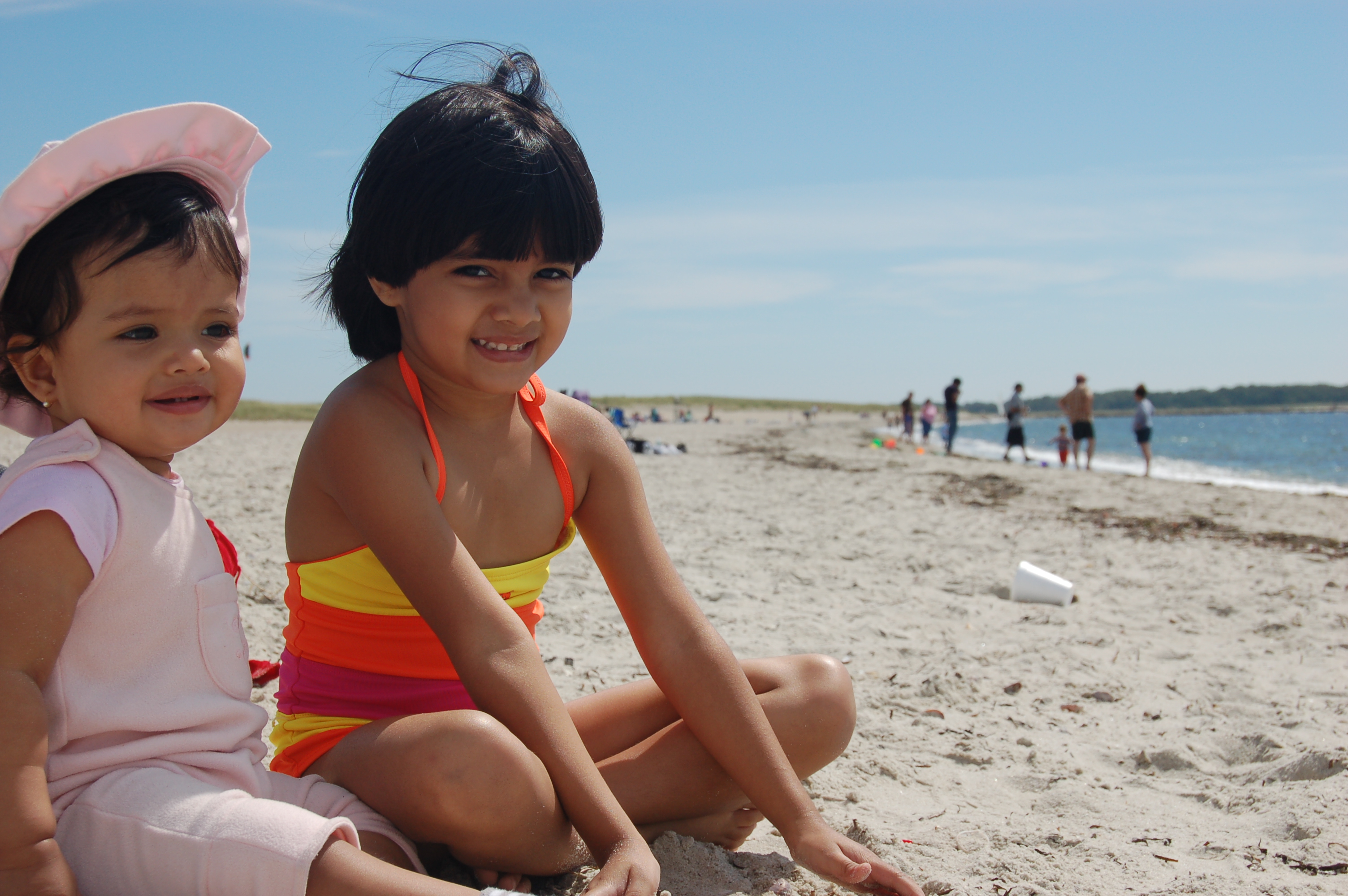 Joy of Freedom at Cape Cod, Massachusetts, USA.